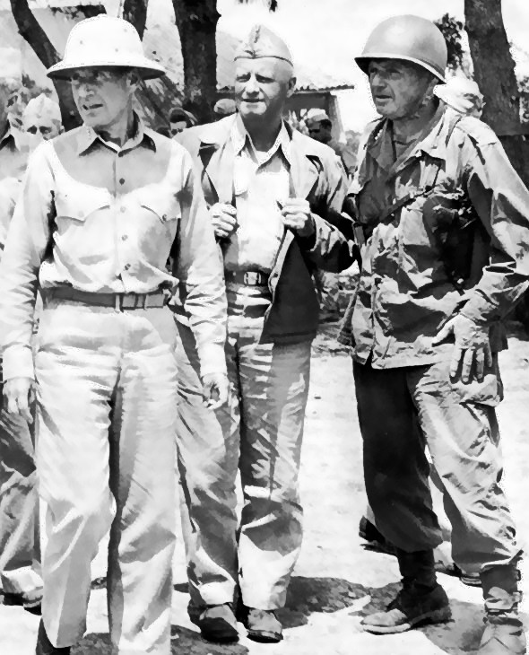 American commanders in Operation Iceberg: Admiral Raymond A. Spruance, Fleet Admiral Chester W. Nimitz, and Lt. Gen. Simon B. Buckner